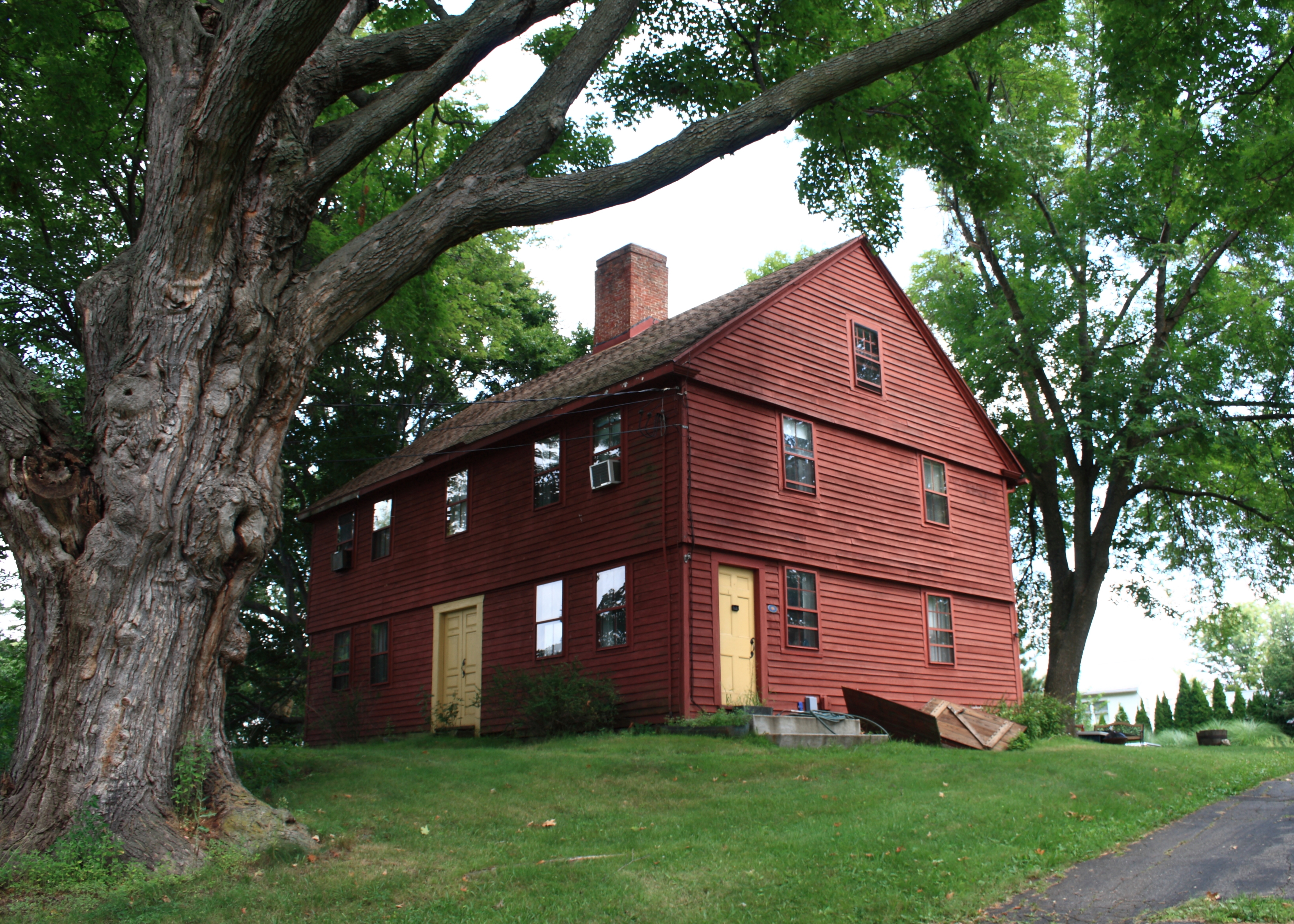 The Willard Homestead, 372 Willard Ave., a Registered Historic Place in Newington, Connecticut.